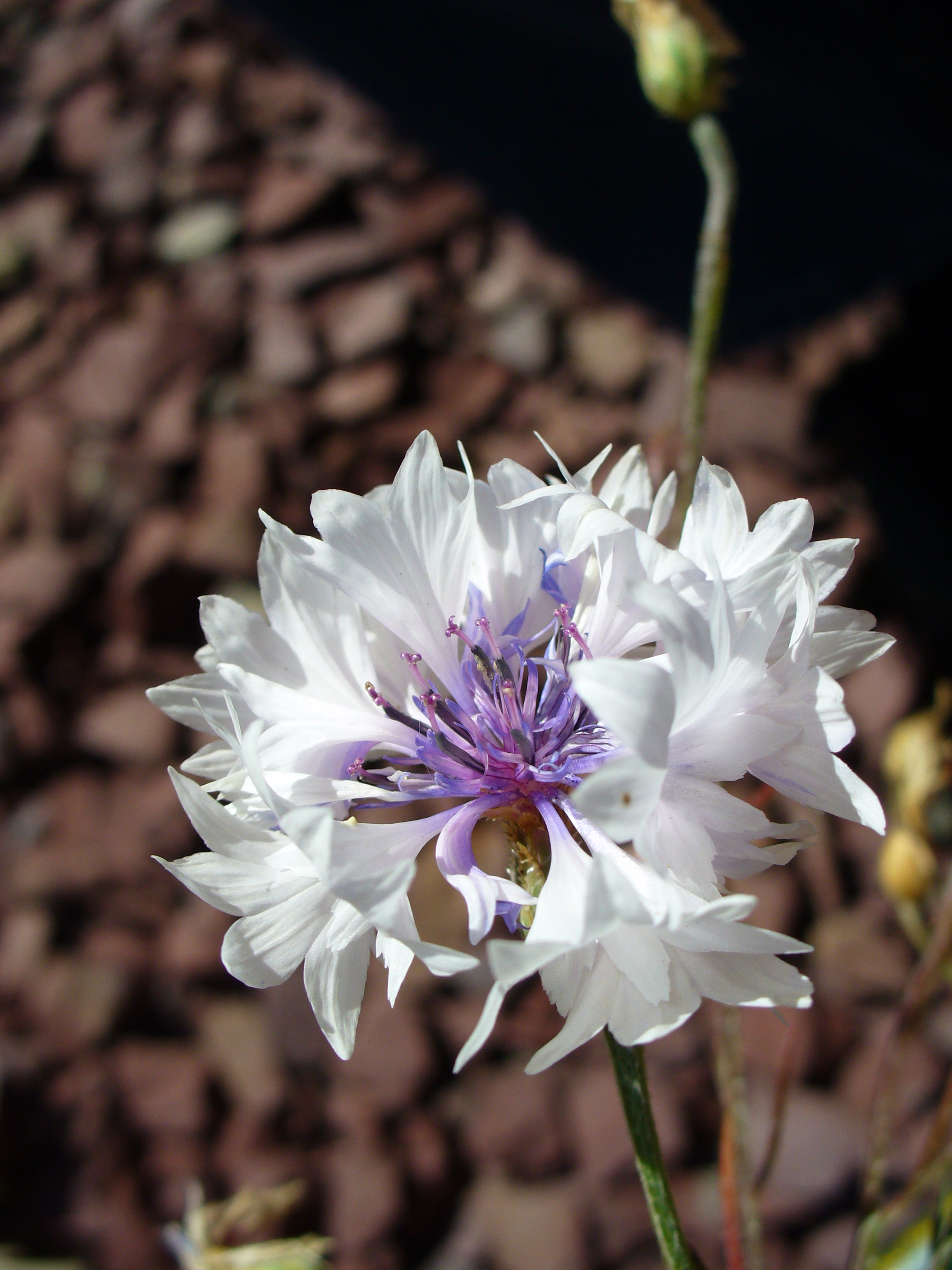 I am the originator of this photo. I hold the copyright. I release it to the public domain. This photo depicts flowers of a pale-flowered cultivar of Centaurea cyanus.